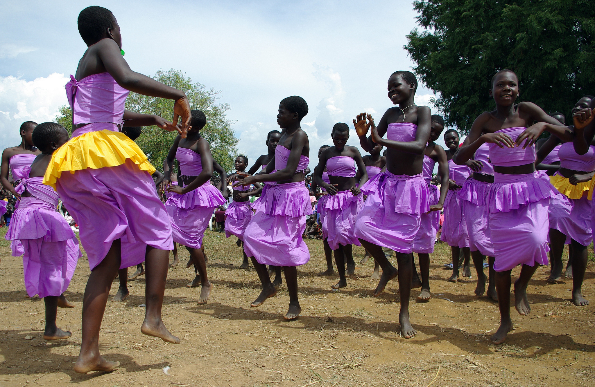 Cultural celebrations resumed with the end of the LRA conflict in Northern Region of Uganda. Image from USAID Africa.